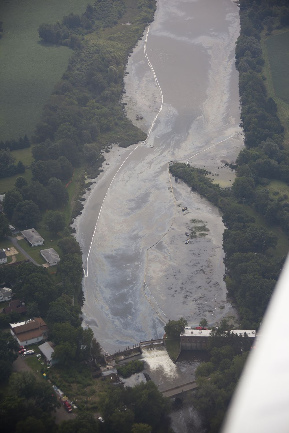 August 9, 2010 - Aerial view of oil sheen emitting from contaminated vegetation at the Ceresco Dam area between the spill site and Battle Creek, Michigan. More about EPA's response to the Enbridge oil spill